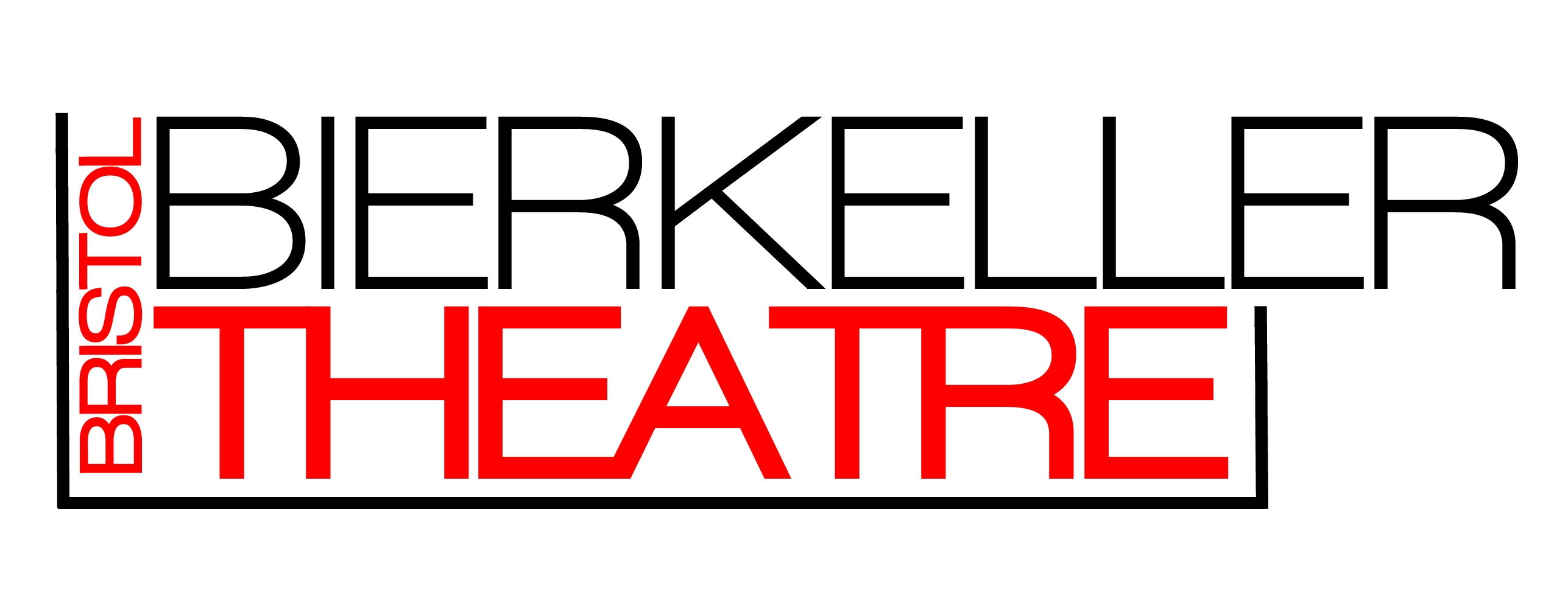 Logo for the Bierkeller Theatre. Permission granted by theatre for use.